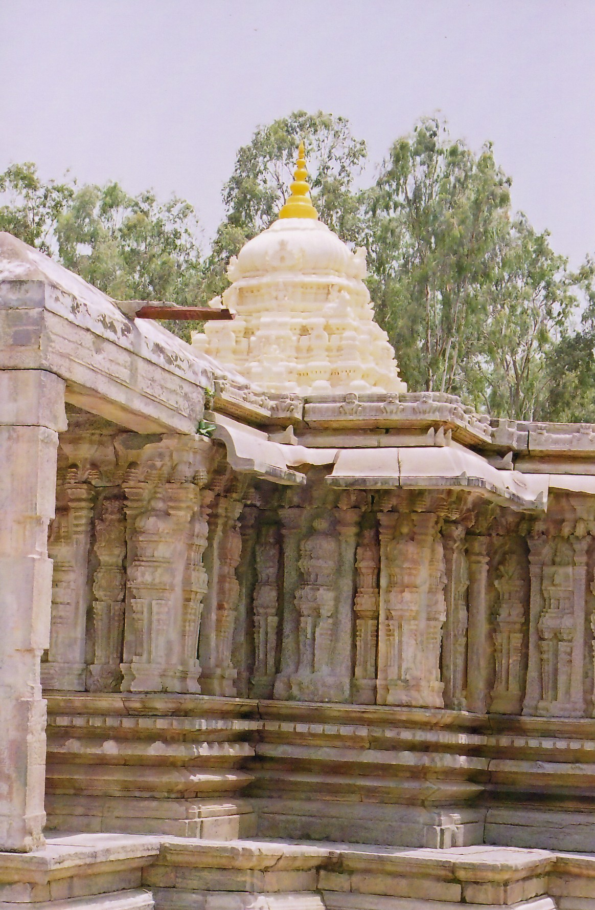 The Keerti Narayana Temple in Talakad, Karnataka state , India